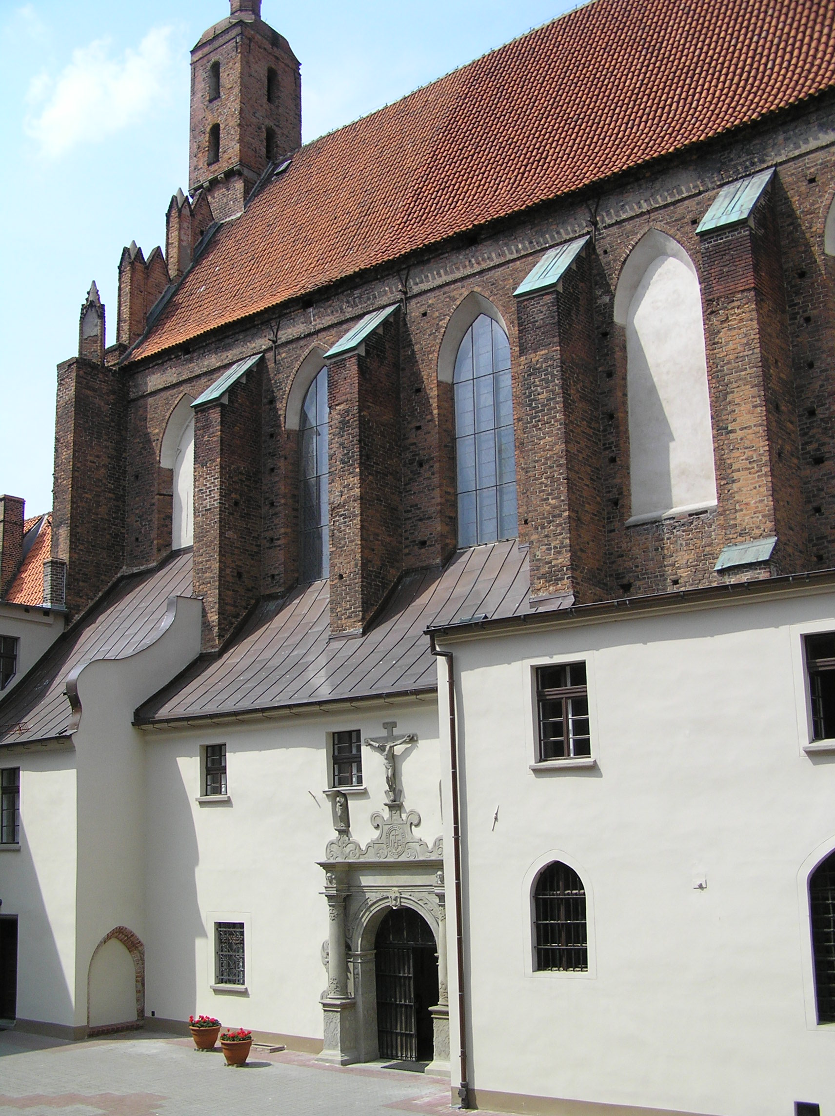 Chełmno, Church of SS. Johns, by 1429 Cistersian nun's, by 1821 Benedictine nun's, nowadays Sisters' of Charity, view from south